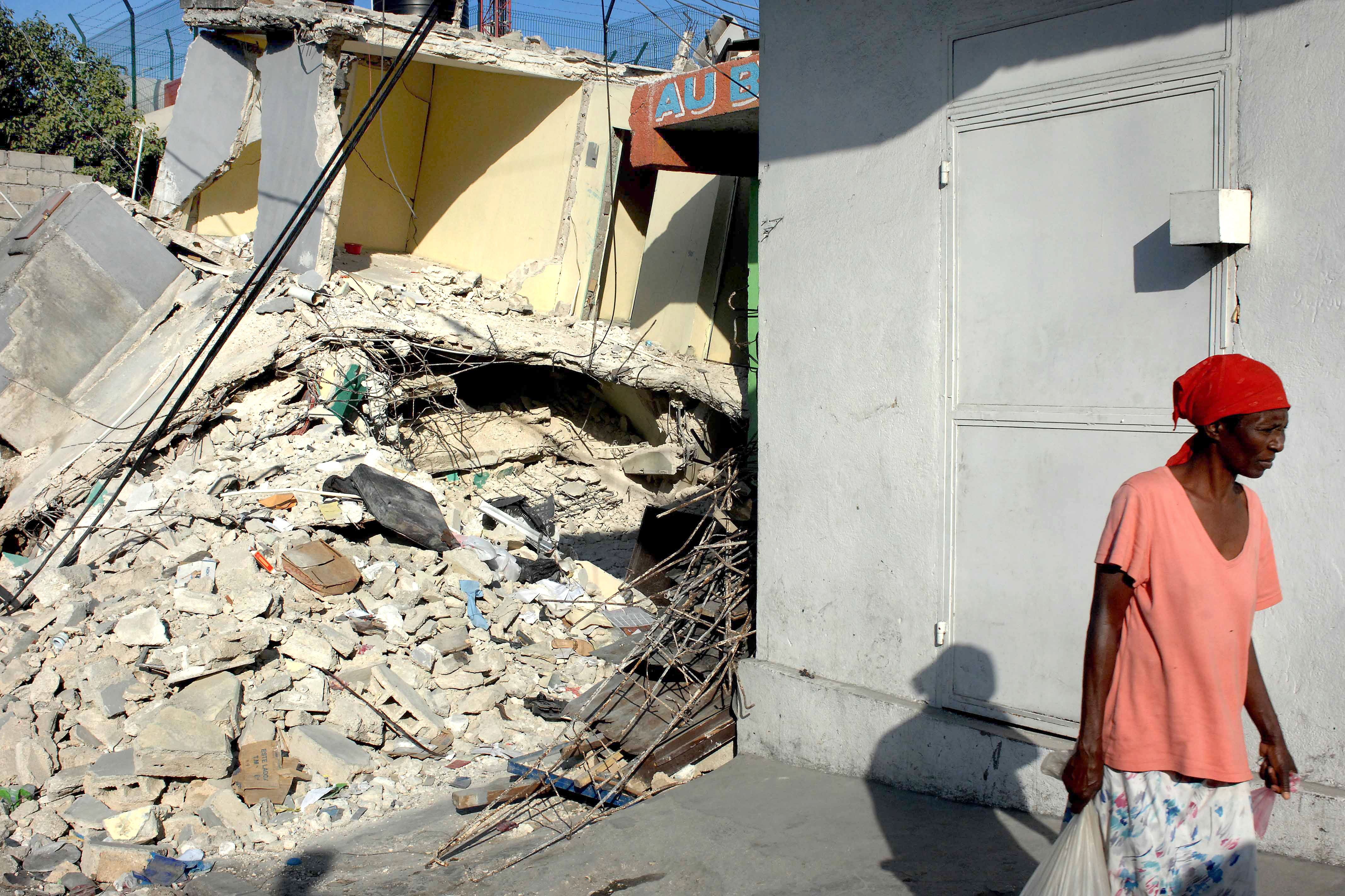 A local woman walks past a collapsed building in Port-au-Prince, Haiti, Jan. 20, 2010. Soldiers assigned to the 82nd Airborne Division's 1st Squadron, 73rd Cavalry Regiment are moving out into the city to help find pockets of people who need food, water and medical care.